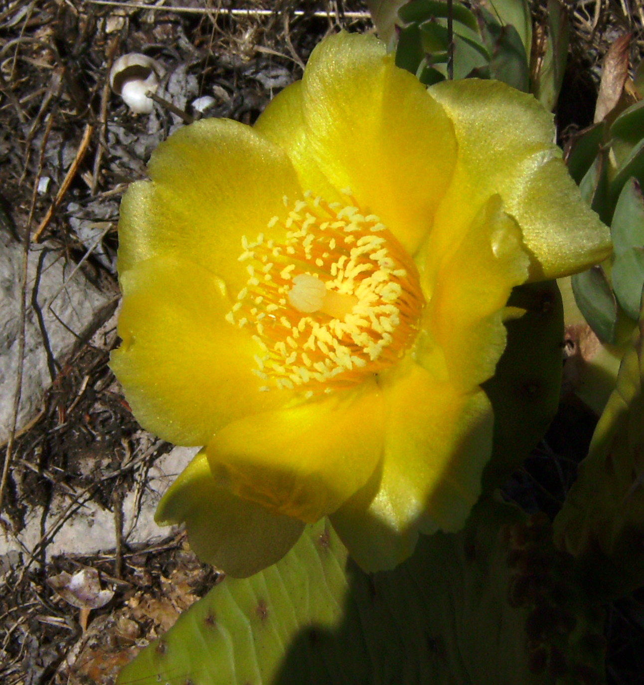 Opuntia humifusa flower (cultivated plant), Castelltallat, Catalonia